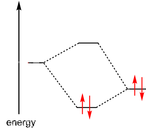 Dative covalent bond2